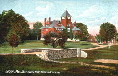 Sturtevant Hall, Hebron Academy, Hebron, Maine. Designed by John Calvin Stevens and dedicated in 1891, the building was named for its donor, Benjamin F. Sturtevant.